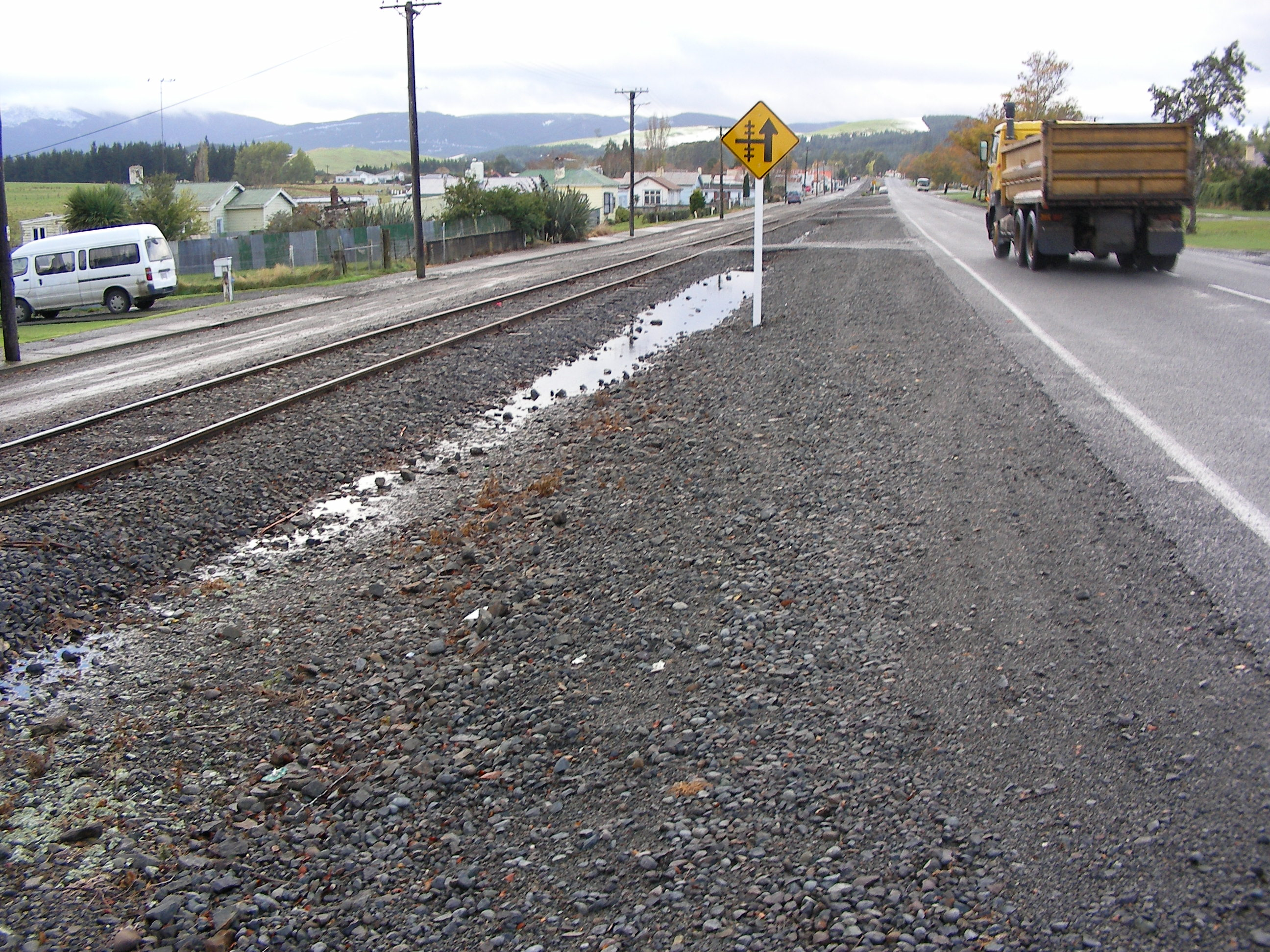 The main street in Ohai running parallel with the Wairio Branch railway in Southland New Zealand